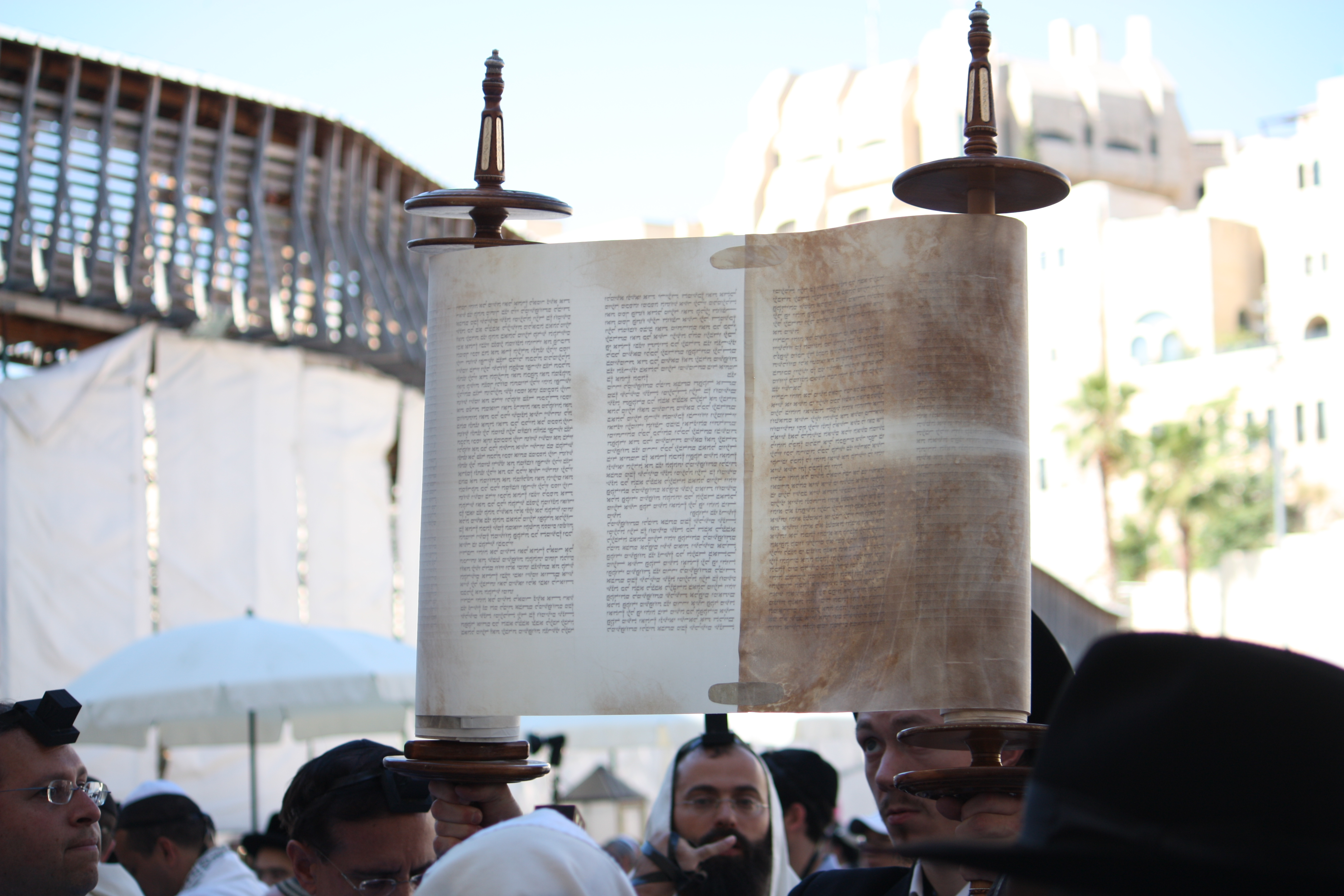 Lifting of a torah book